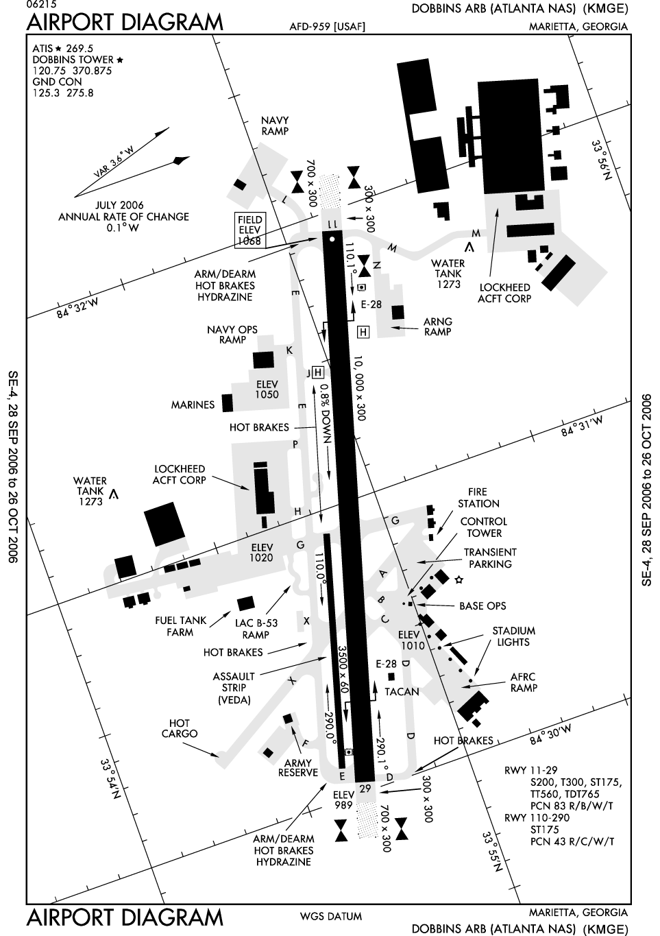 Naval Air Station Atlanta FAA Diagram category:Naval Air Station Atlanta category:Federal Aviation Administration category:Maps